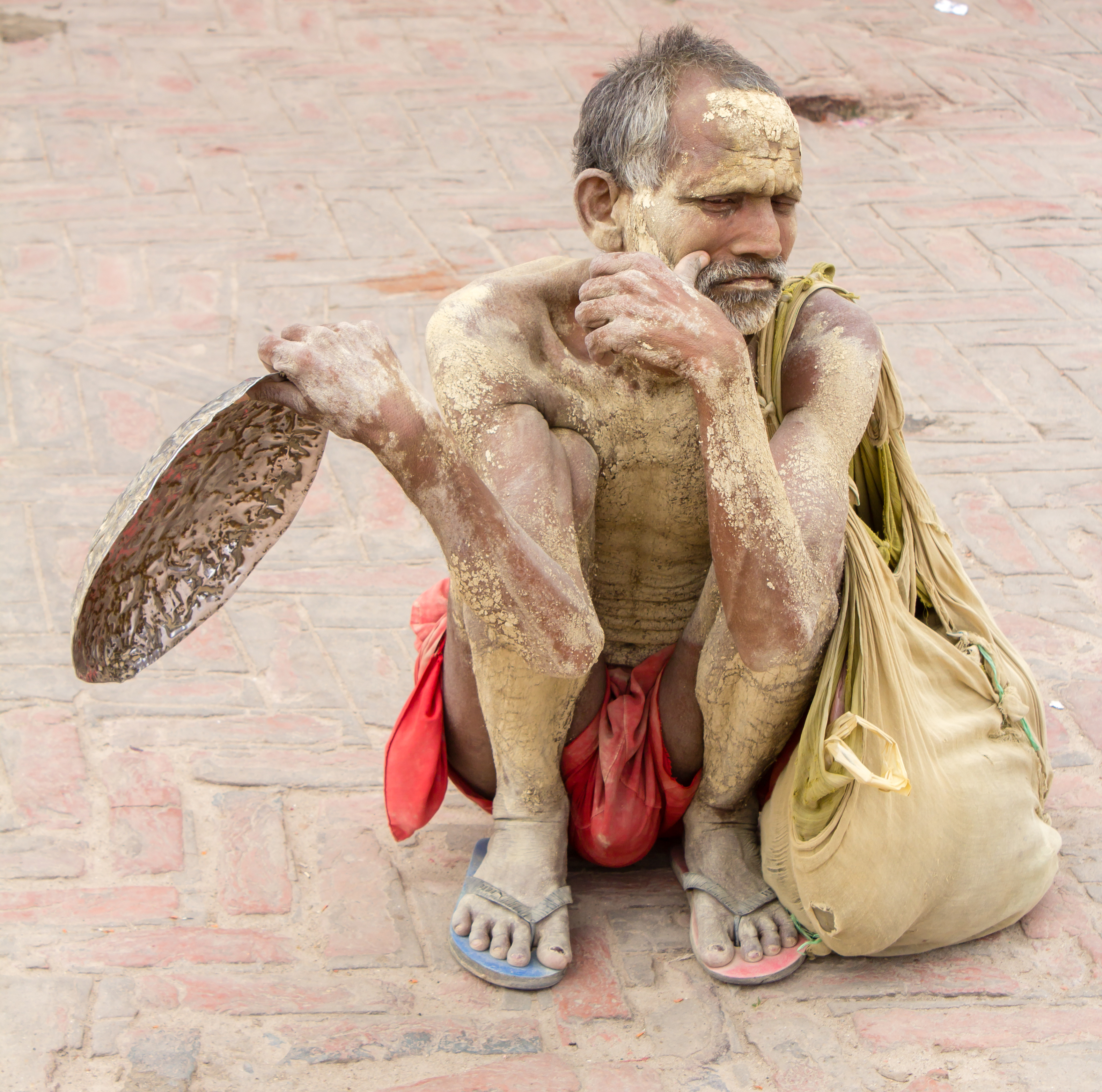 Sadhu sitting in the ground of Janaki Mandir, Janakpurdham Nepal.